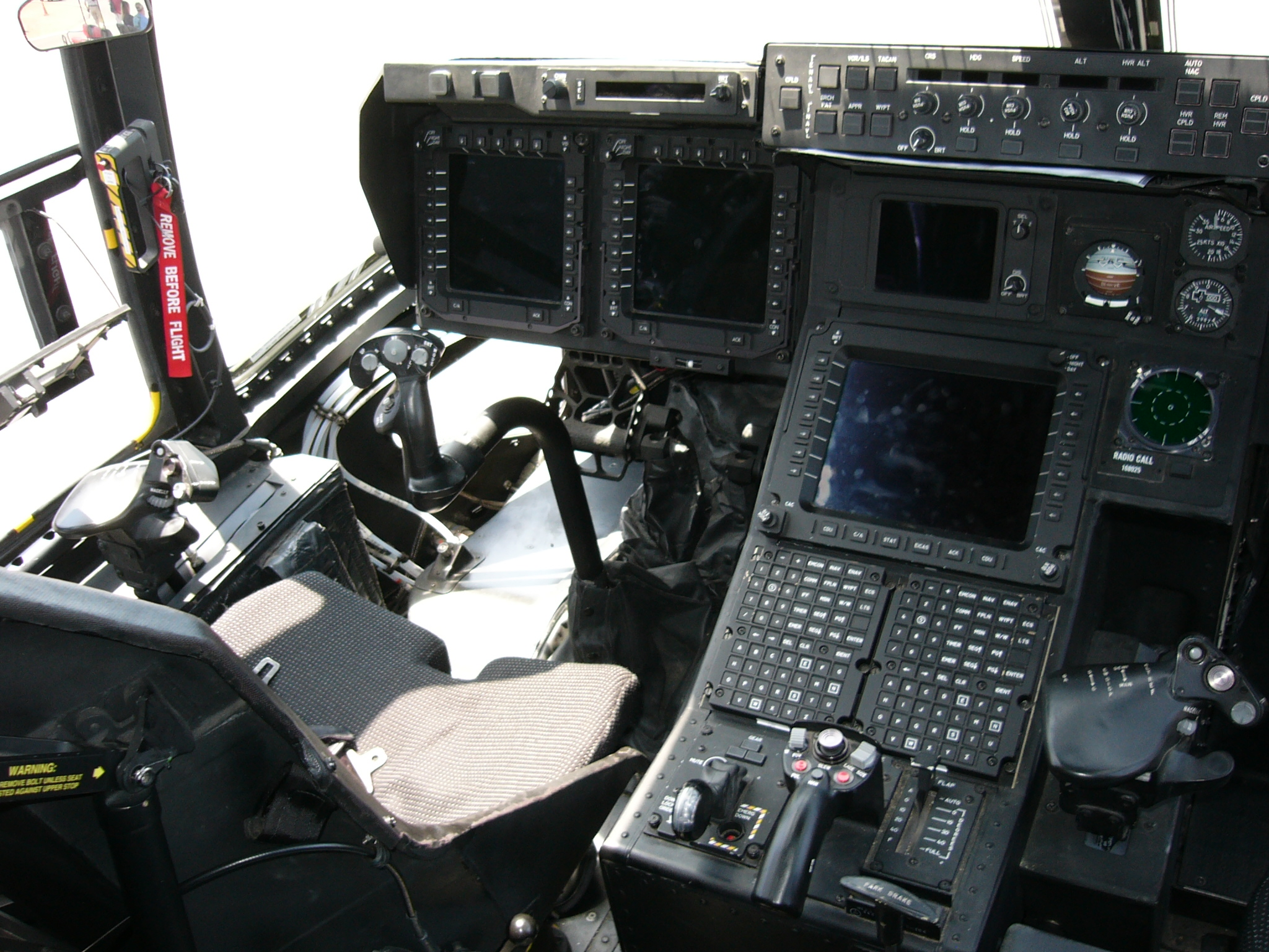 Cockpit of V-22 Osprey showing unusual controls iffy quality